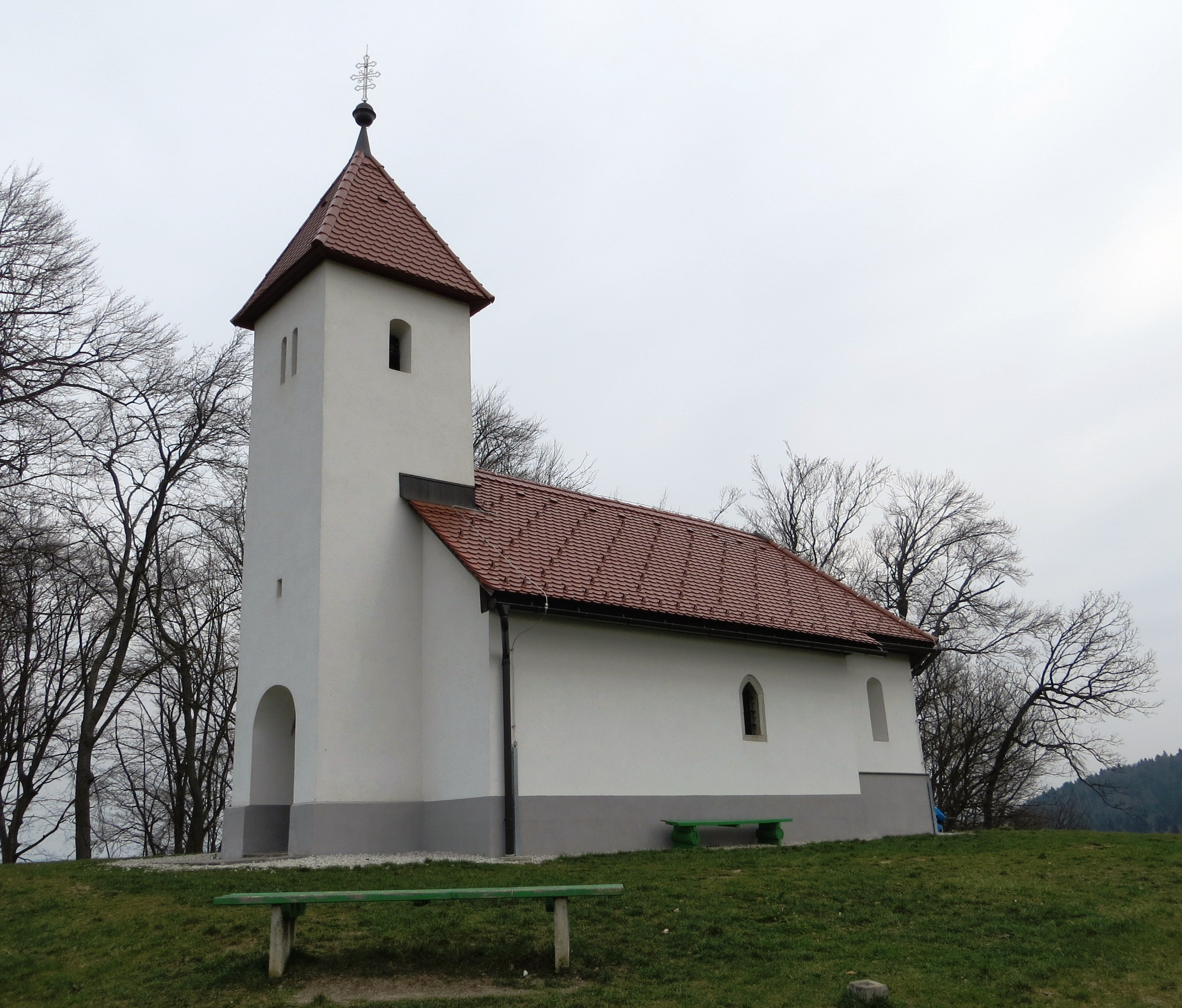 Saint Lawrence's Church in Jezero, Municipality of Brezovica, Slovenia